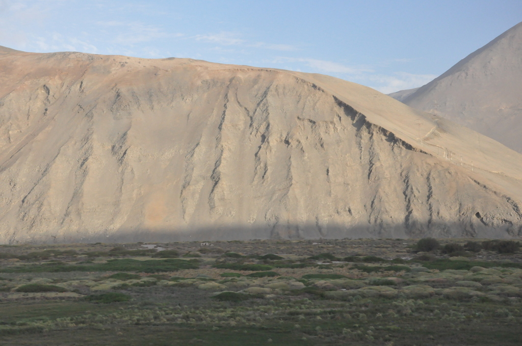 Camarones valley, near Cuya village, commune of Camarones, Chile